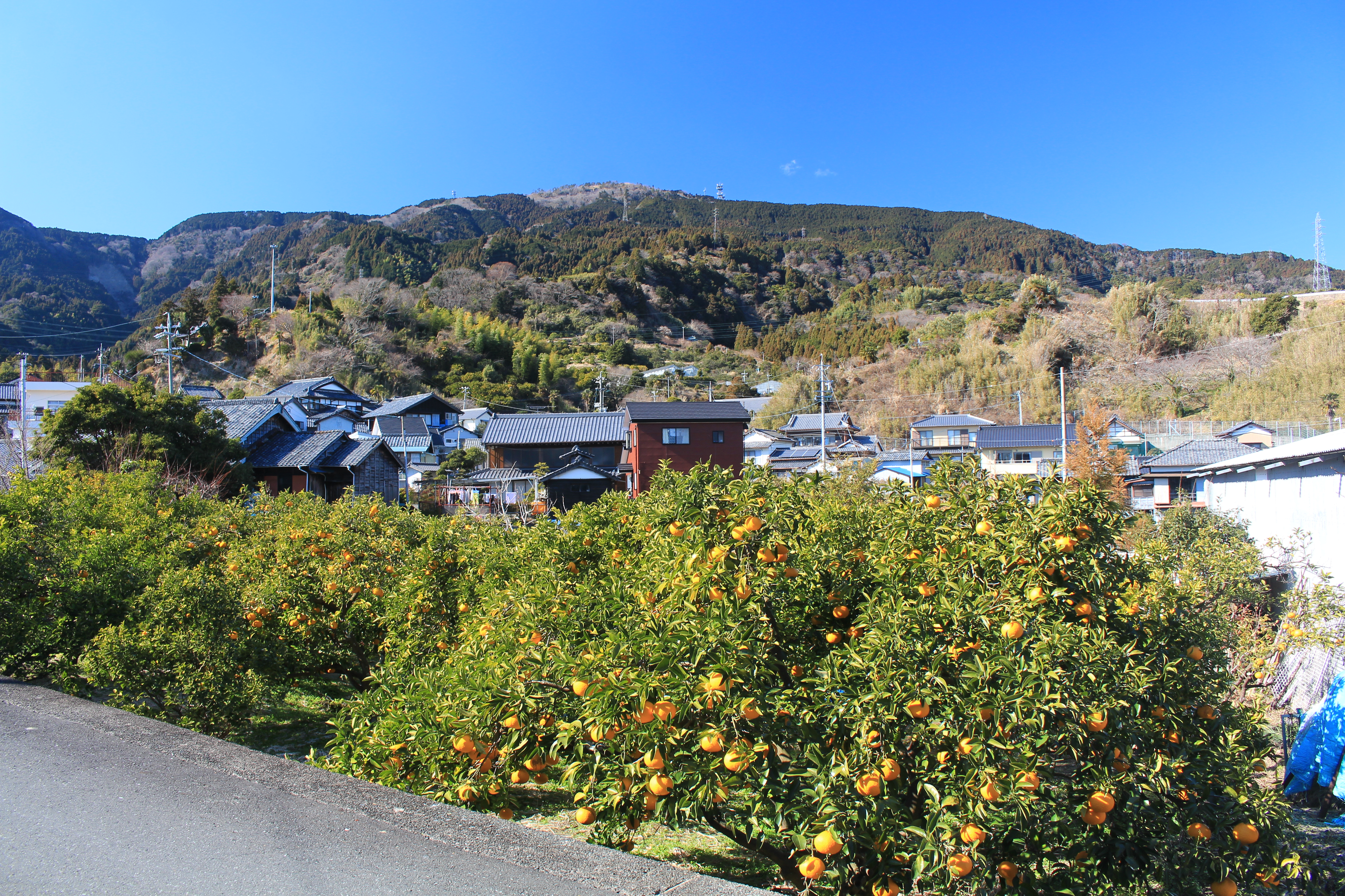 Mount Hamaishi seen from Yui, in Shizuoka city, Shizuoka prefecture, Japan.